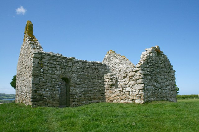 Hen Capel Lligwy The early 12th-century chapel which served the community of Penrhos Lligwy.